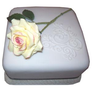 Sugar Rose Cake